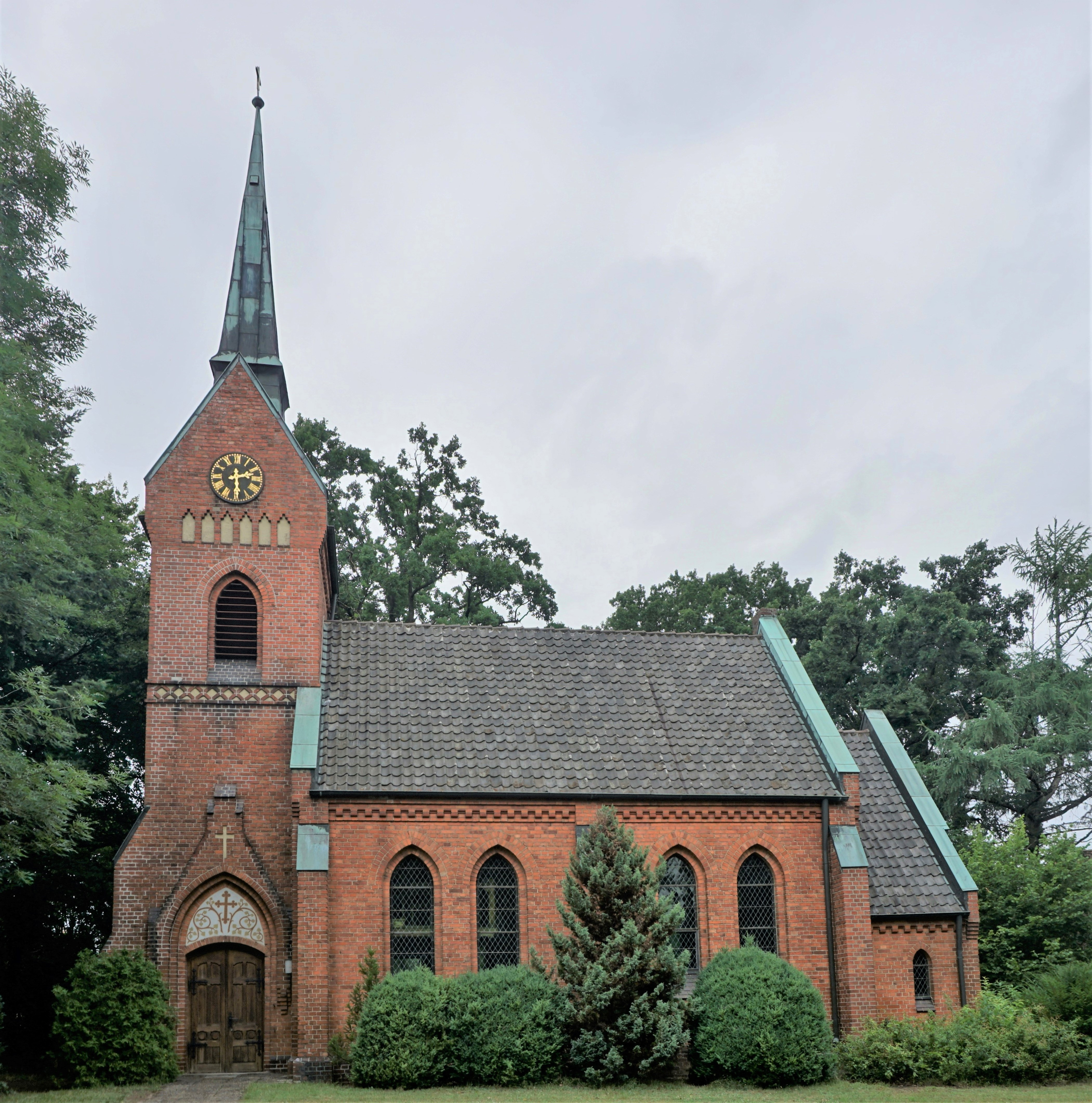 The chapel of Höver in the district of Uelzen was built in 1904 in neo-gothic style.